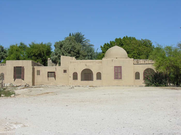 Howard Carter's house II in Thebes